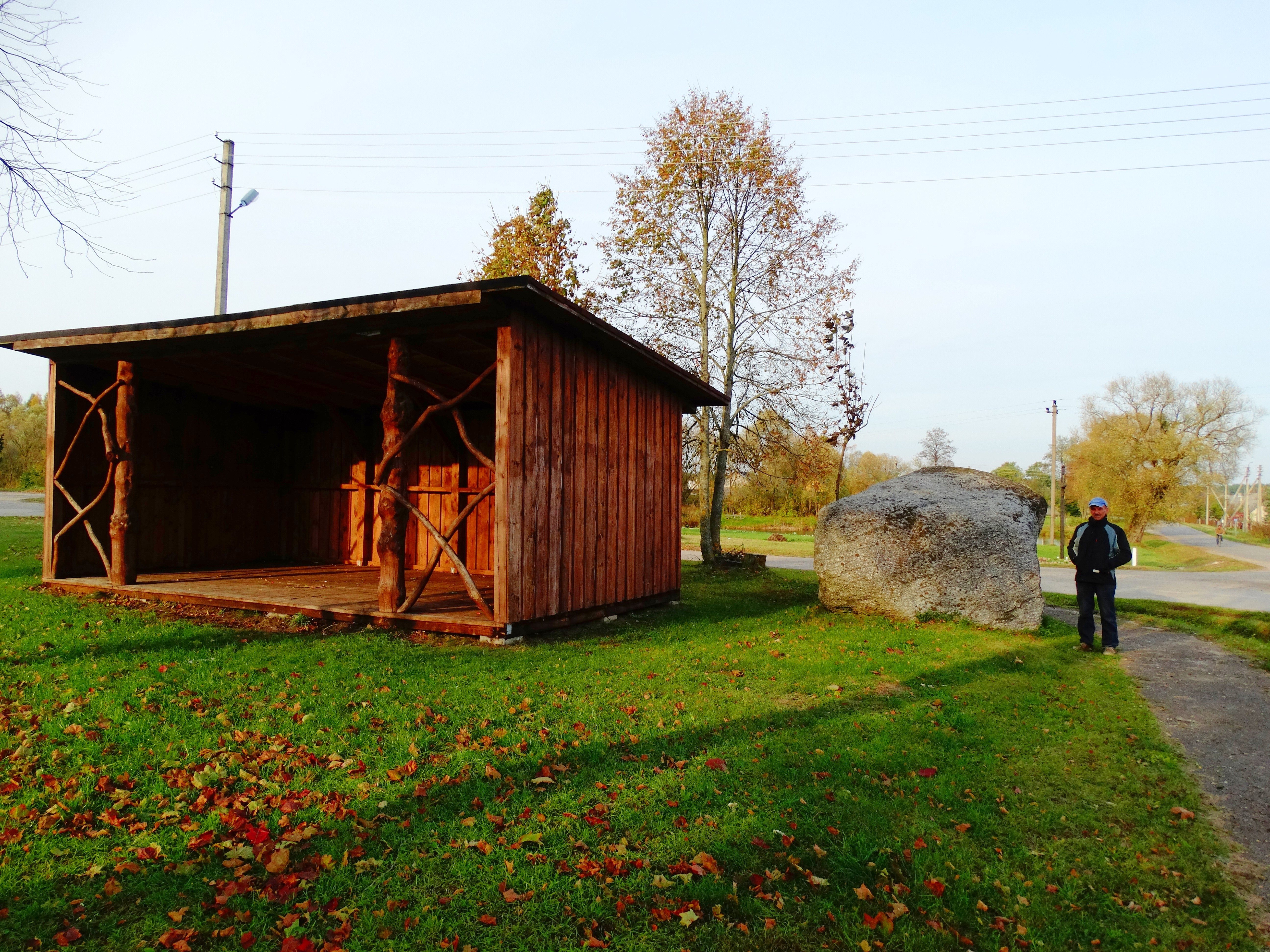 Panara, Varėna district, Lithuania